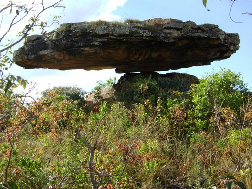 A beautiful work of nature that is located about 8 km from the city of Cristalina Goias Brazil.